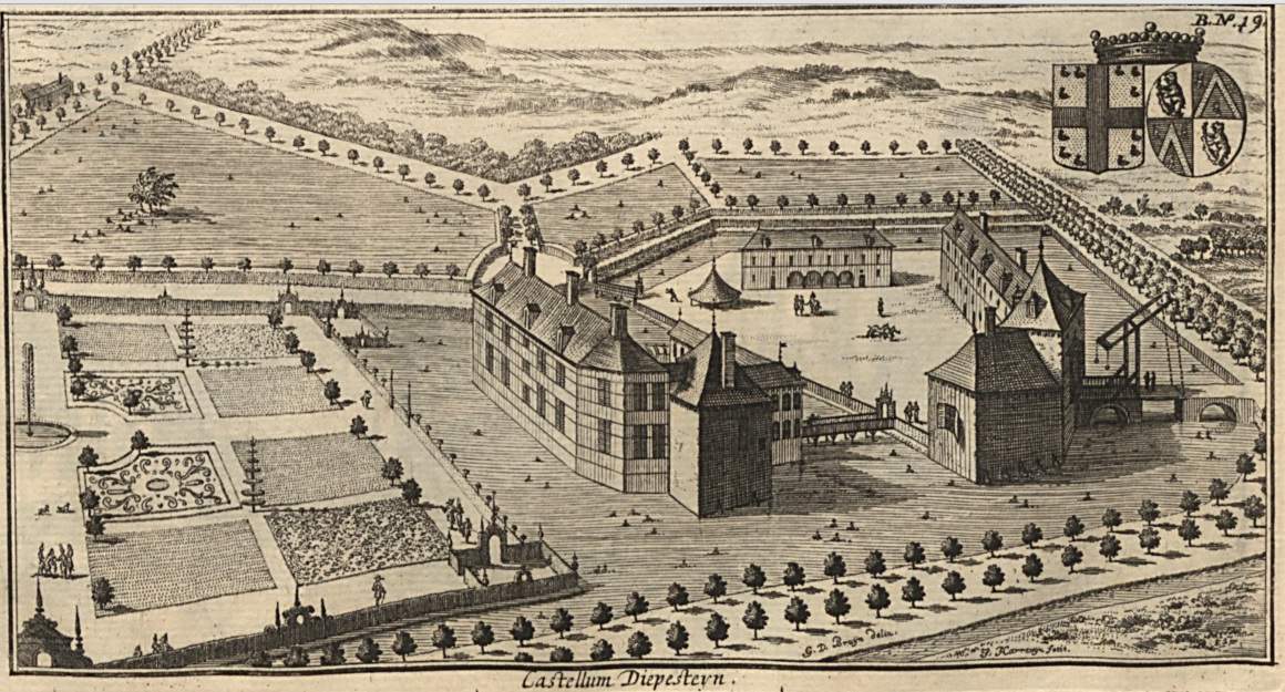 Kasteel Diepensteyn in het begin van de 18e eeuw (afbeelding uit Groot werreldlyk tooneel des hertogdoms van Braband - 1730)